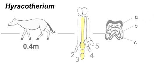 Eohippus drawing Legend for molar tooth (right) - (en): dark=enamel; dotted=dentine; white=cement